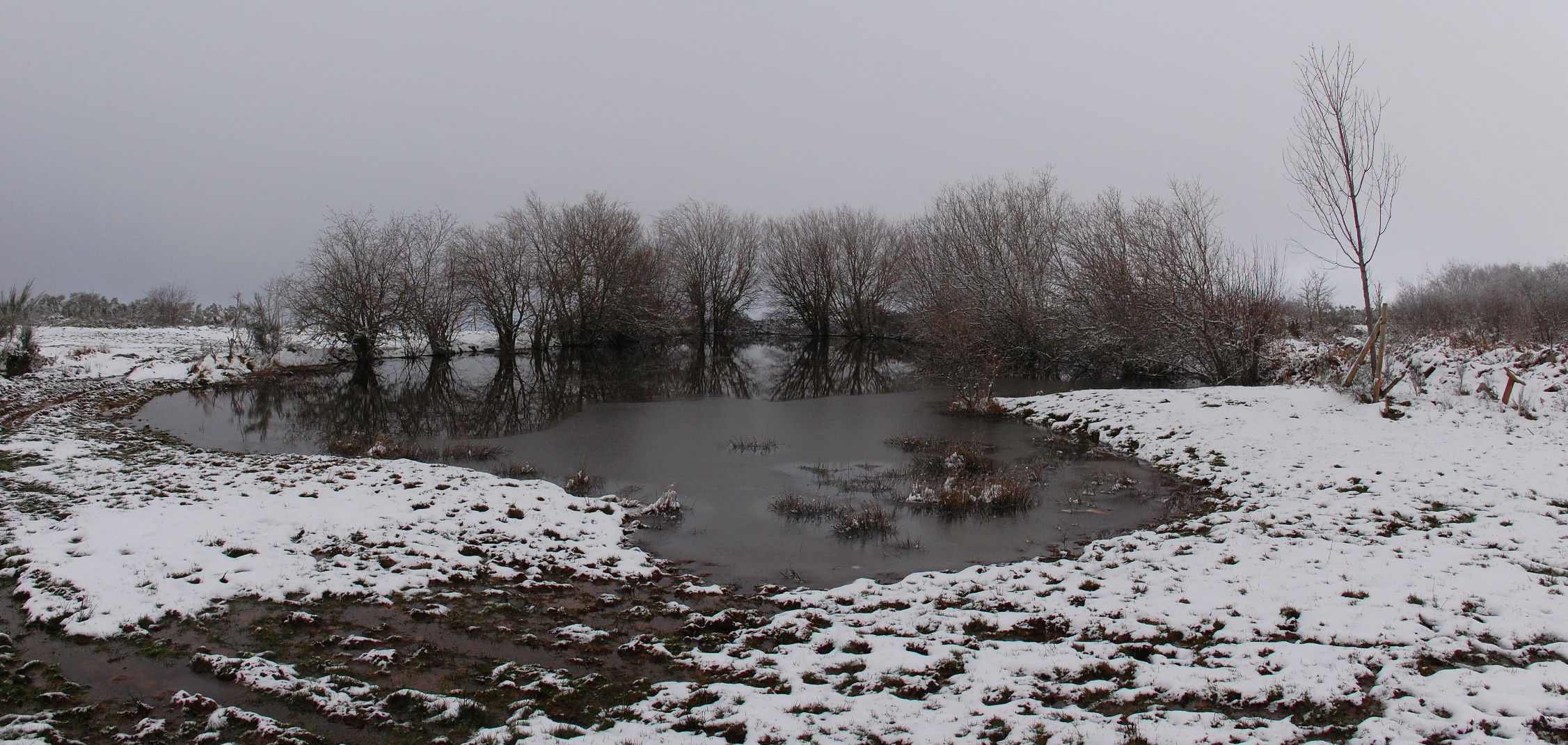 This is a photography of a Special Area of Conservation in Spain with the ID: ES1120001. Natura2000 entry, EEA entry